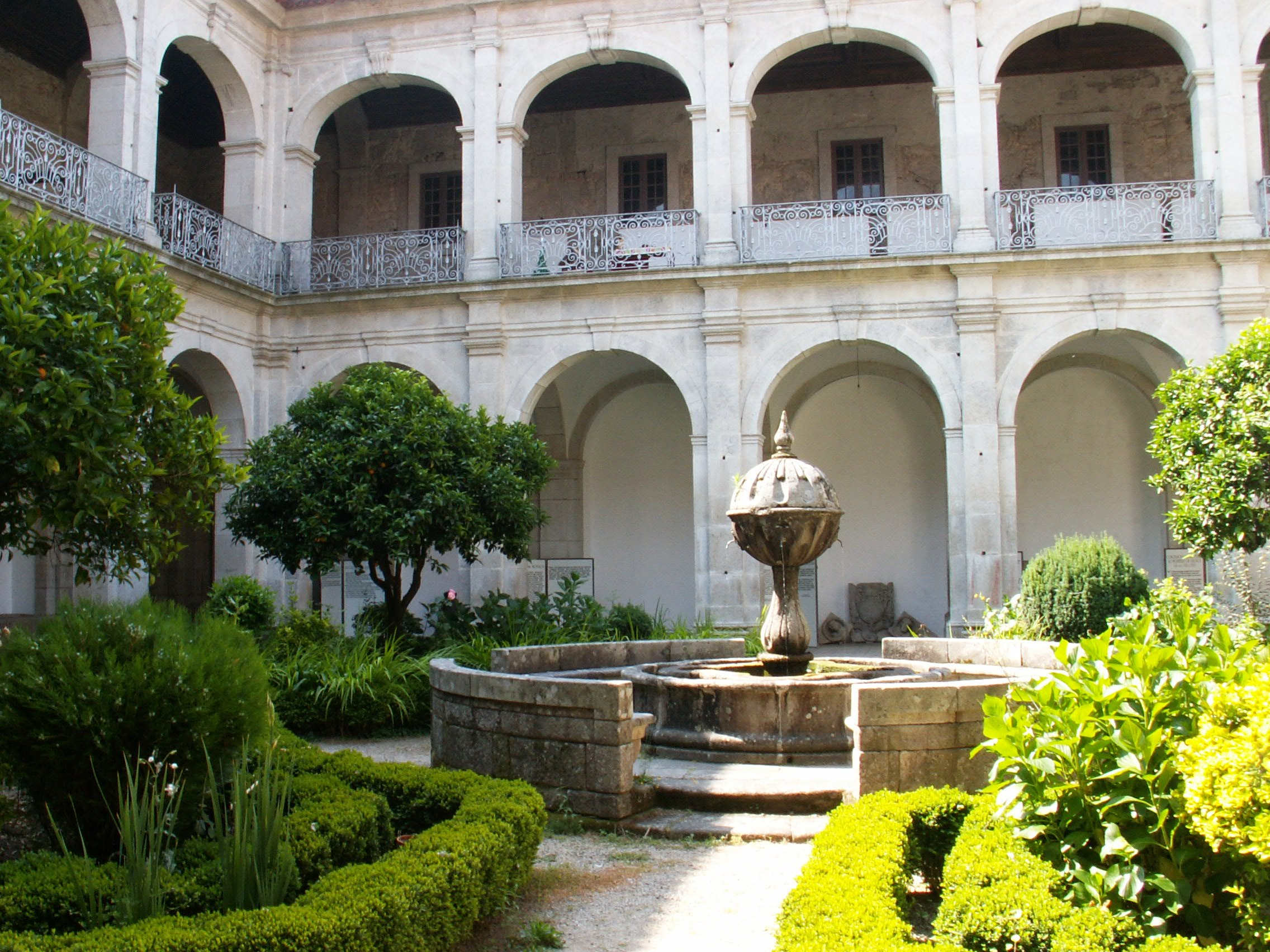 Walking around the cloister III